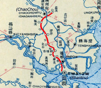 Map of South China showing the route of the Swatow to Chao Chow railway line in 1908